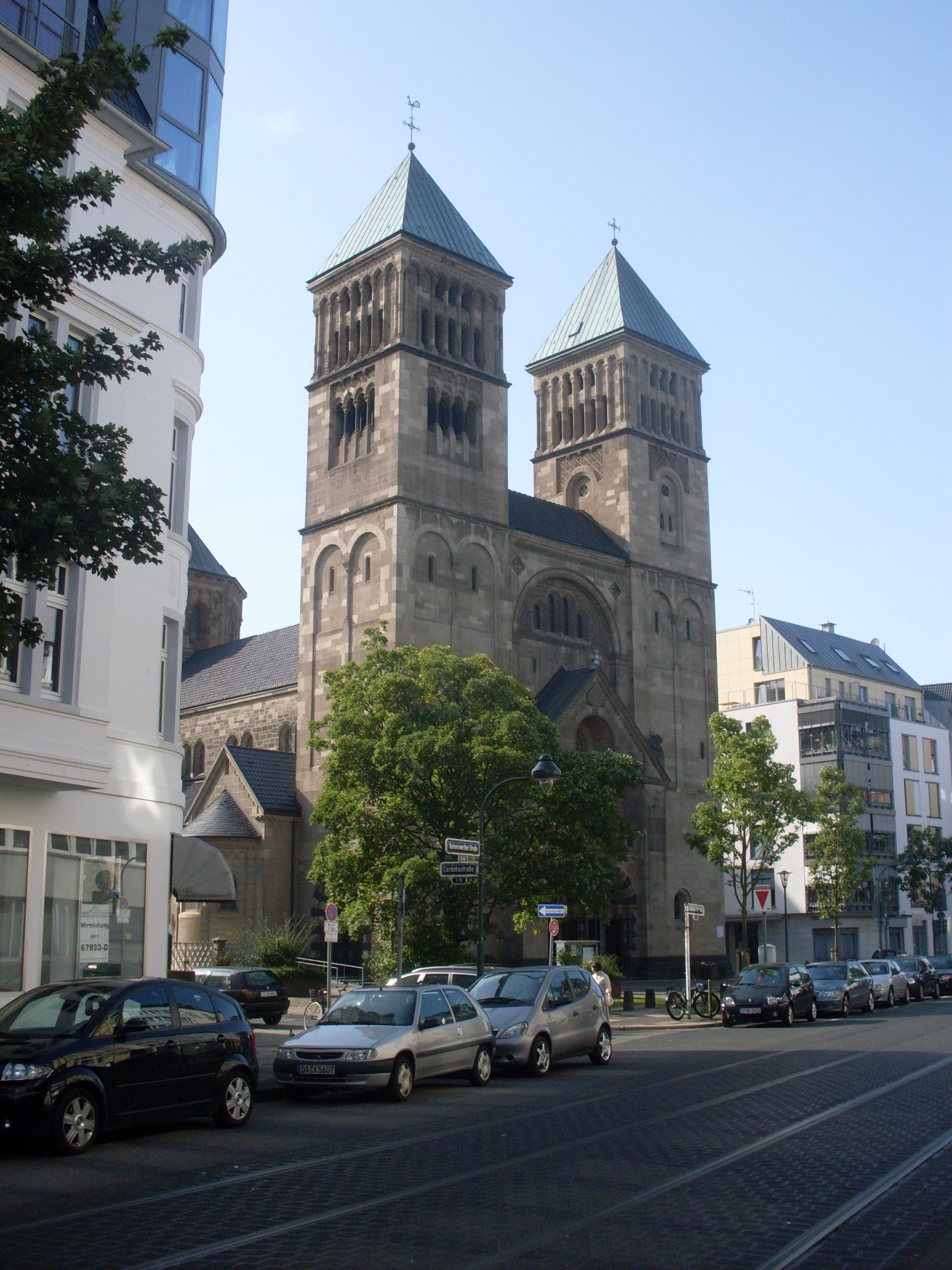 Duesseldorf Catholic Church Saint Adolfus, Kaiserswerther Strasse 60